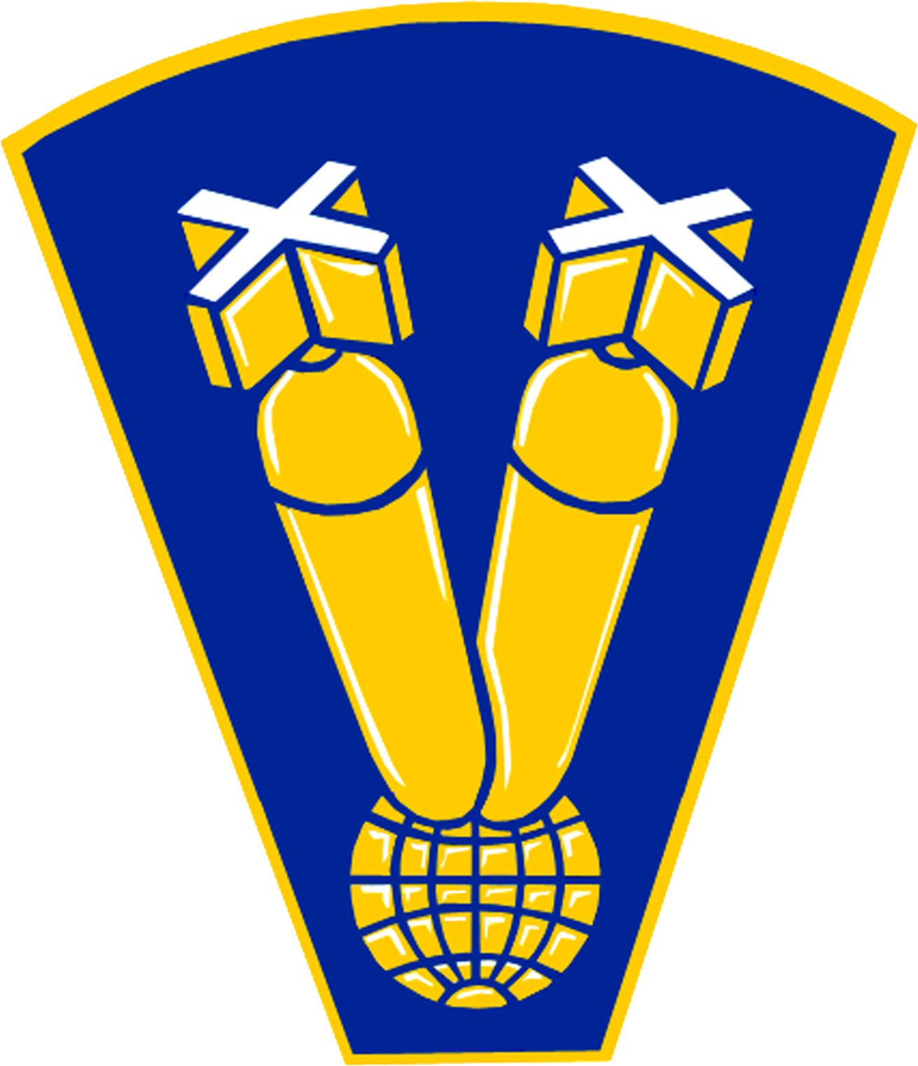 XX Bomber Command - Emblem